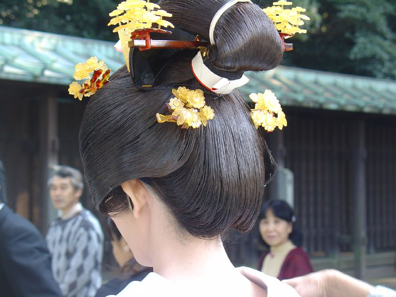 Traditional wedding hairstyle of a bride at the Meiji shrine